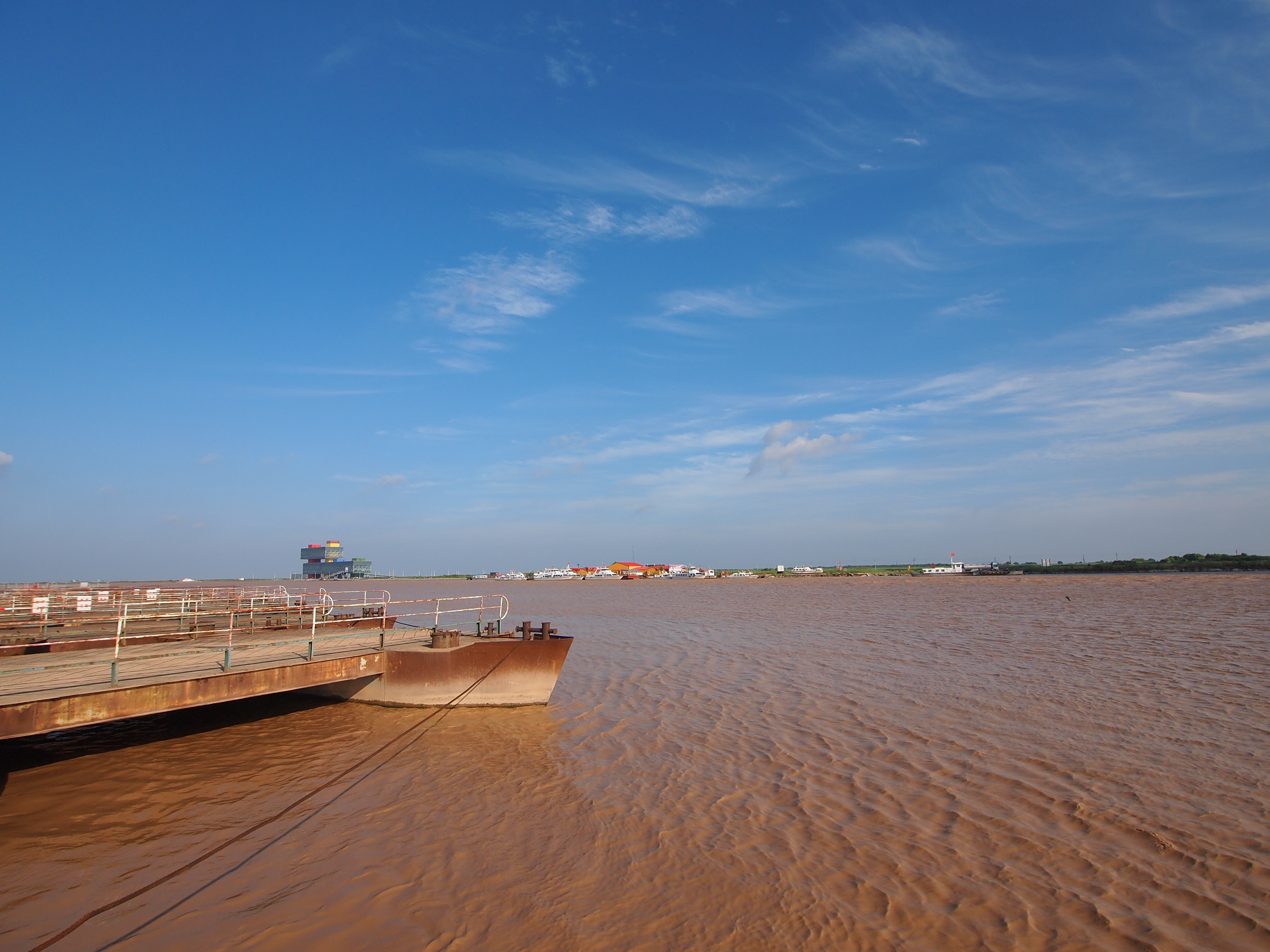 滚滚黄河入海流 - The Yellow River Entering the Sea - 2012.07